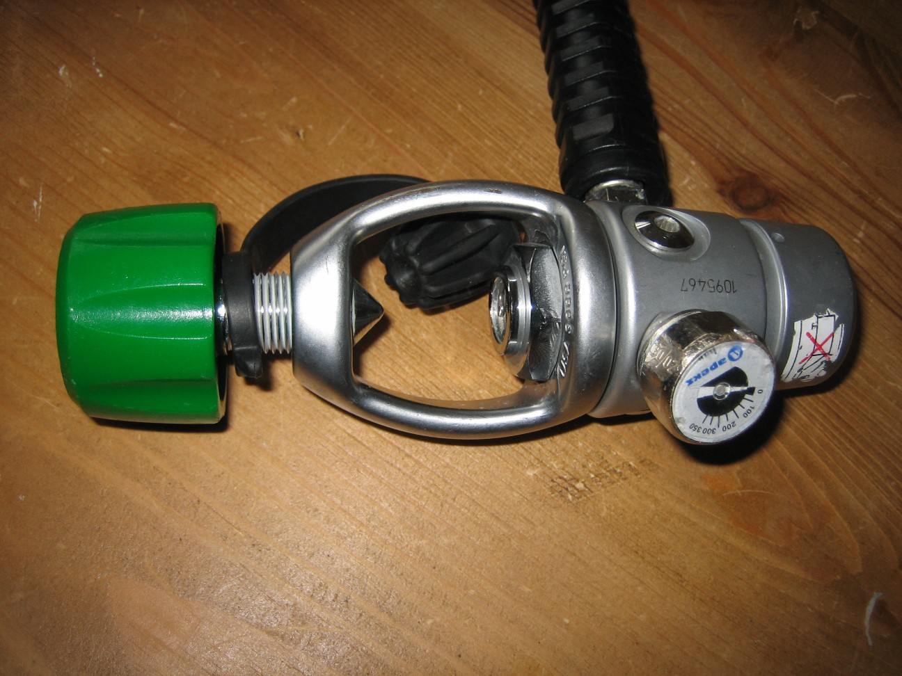 An A-clamp piston-type first stage with a button contents gaugse and medium pressure hose